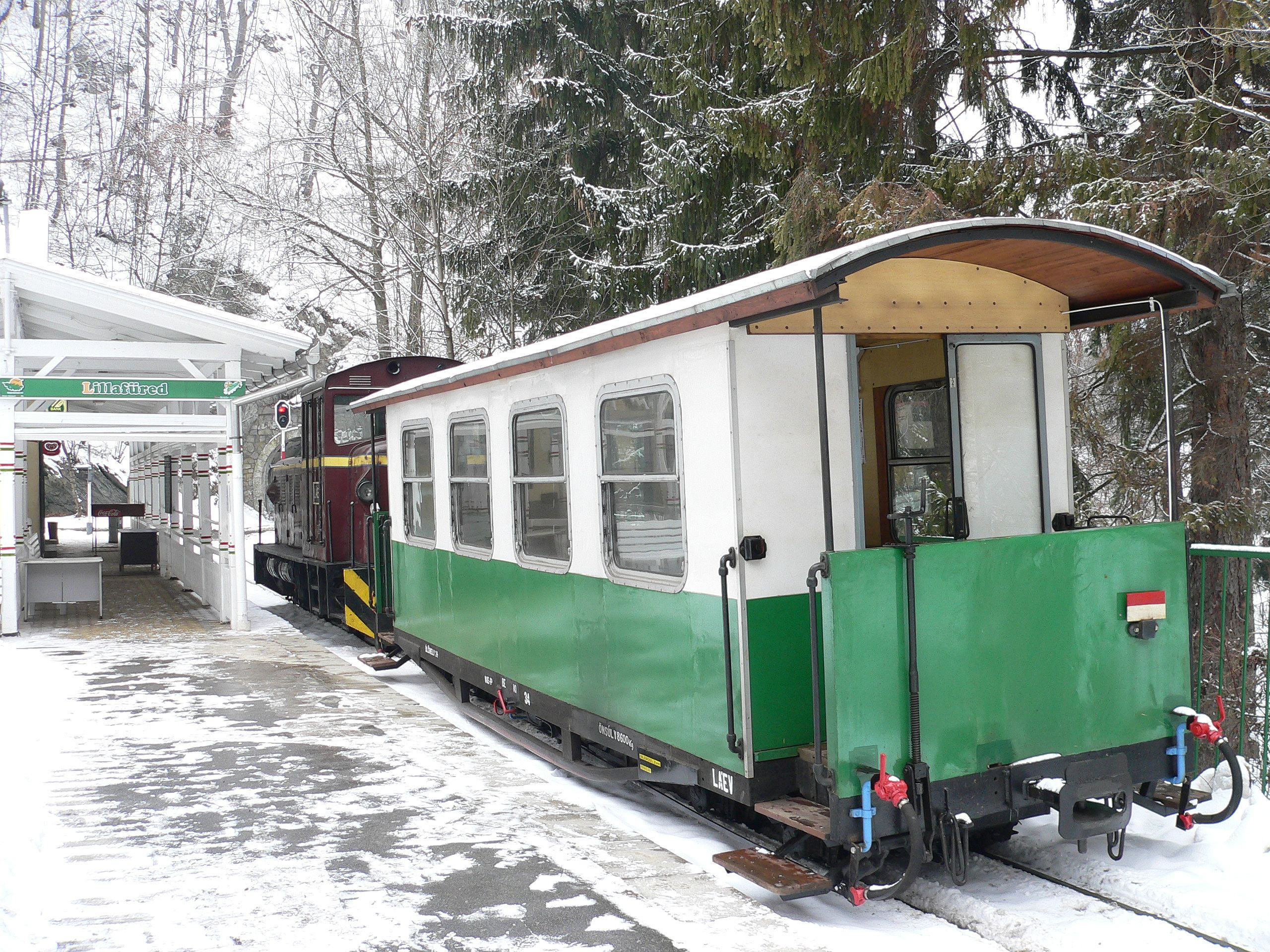 Narrow gauge railway and its station in Miskolc-Lillafüred, Hungary. The closed carriages are used in winter only. Author: József Dudás (Miskolc, 2006)